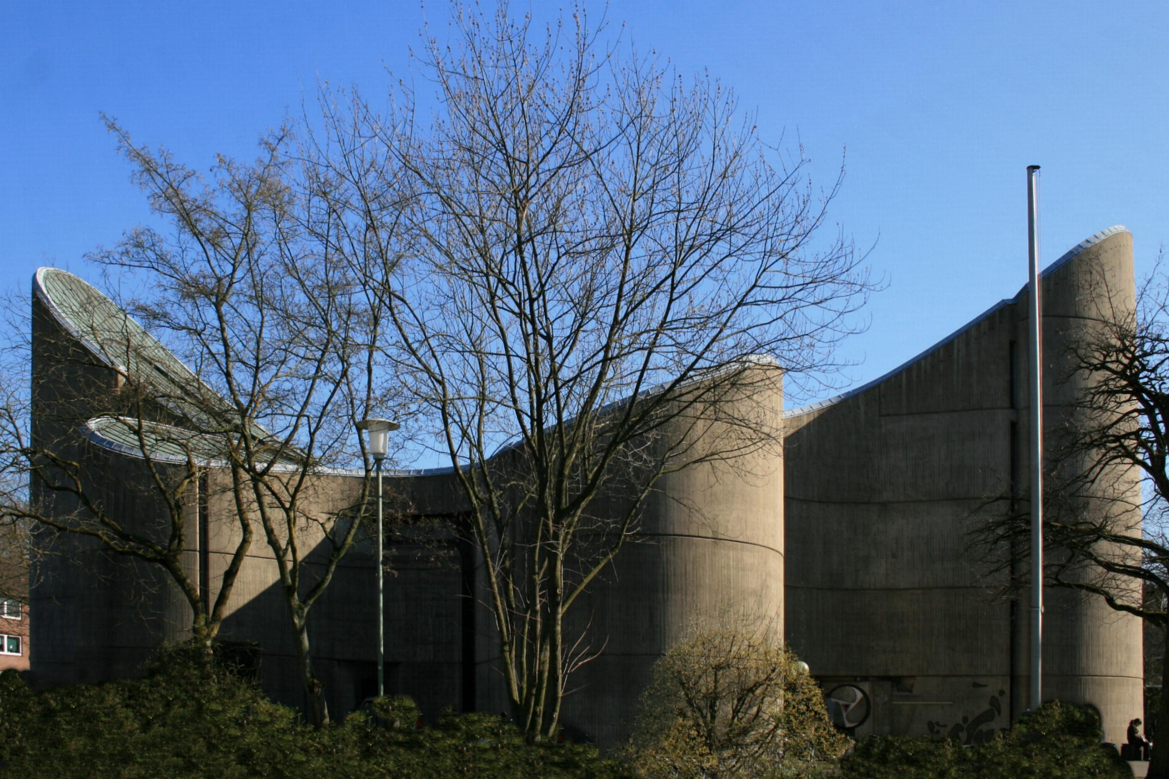 This is a photograph of an architectural monument.